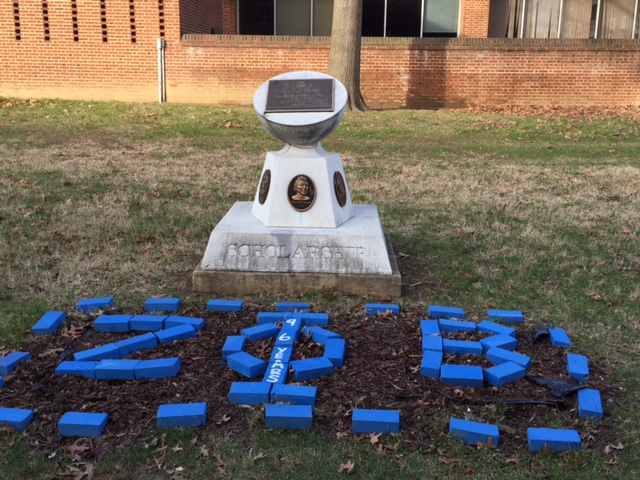 This is the Zeta Phi Beta Monument located in the lower quadrangle ("The Valley") at Howard University.